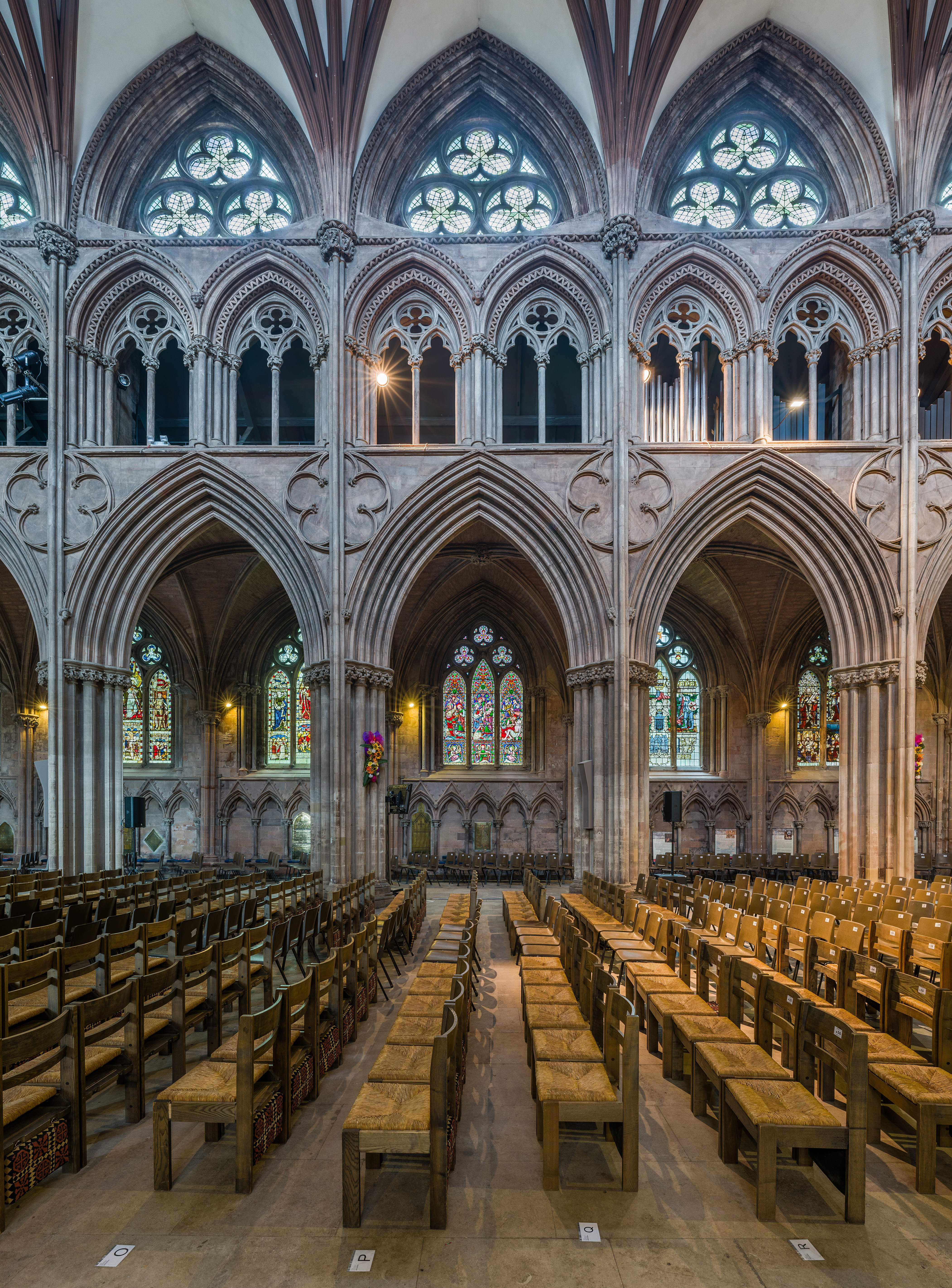 The column structure of the nave in Lichfield Cathedral, Staffordshire, England.